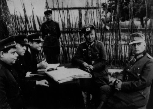 Surrender of Major-General Alfons Hitter and Lieutenant-General Friedrich Gollwitzer to Marshal of the Soviet Union Aleksandr Vasilevsky ans Field Marshal Ivan Chernyakhovsky after the battle of Vitebsk during Operation Bagration.